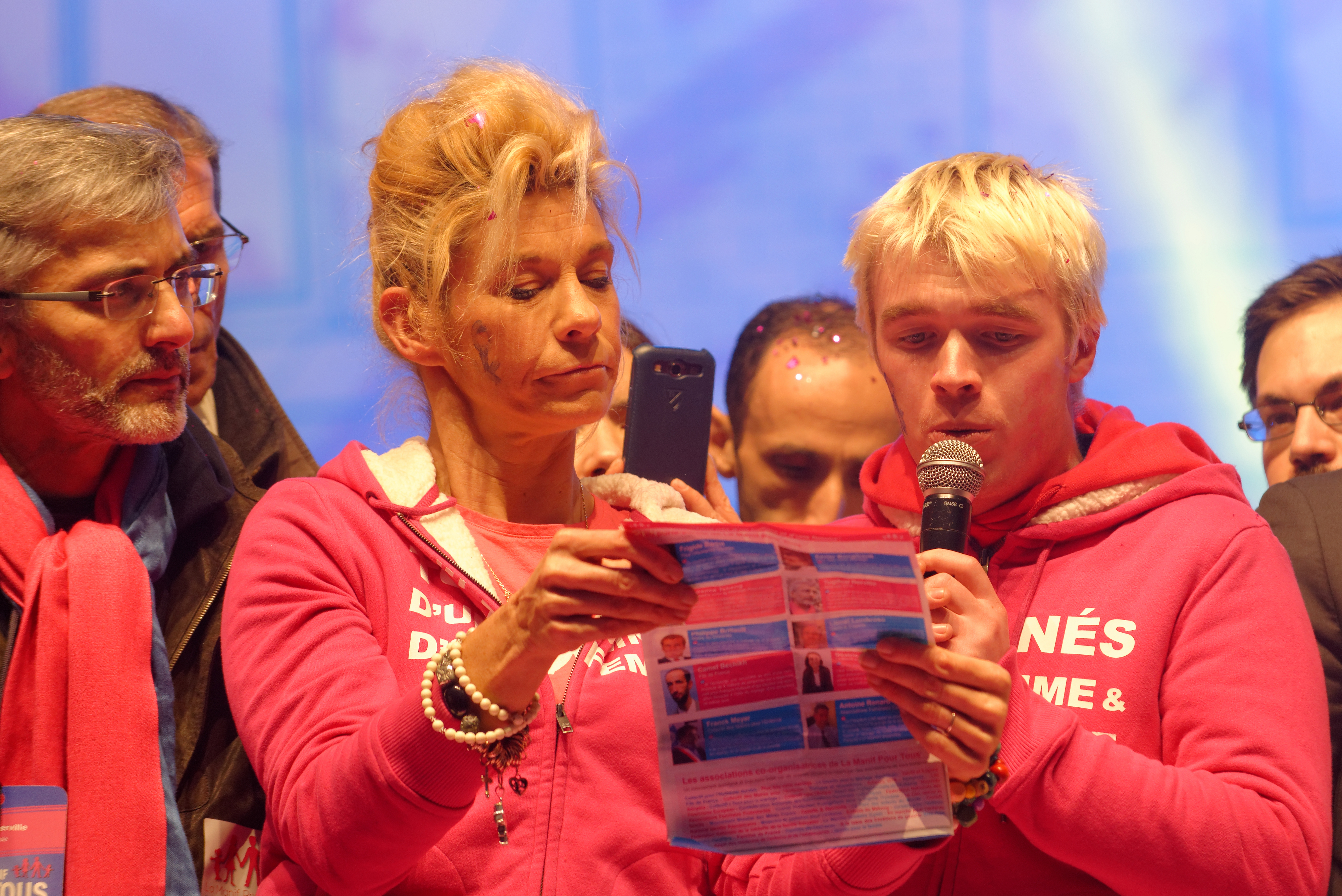 From left to right, Tugdual Derville, Frigide Barjot, and Xavier Bongibault on the podium during the demonstration against same-sex marriage in Paris on 13 January 2013 (“Manif pour tous”): the procession coming from Place d'Italie.